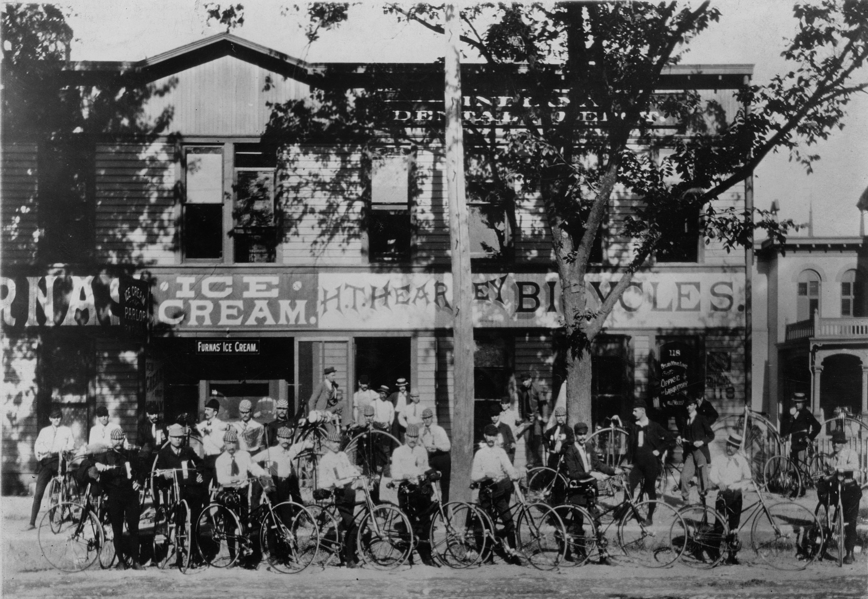 This building on Pennsylvania Street between New York and Ohio Streets was originally built for a skating rink. Following that a bicycle sales and repair business owned by Charles F. Smith, of the Indiana Bicycle Co. occupied the site. H.T. Hearsey's bicycle business was there from 1890-1899. Other businesses followed until the site was cleared to make way for construction of the Federal Building 1903-1905.